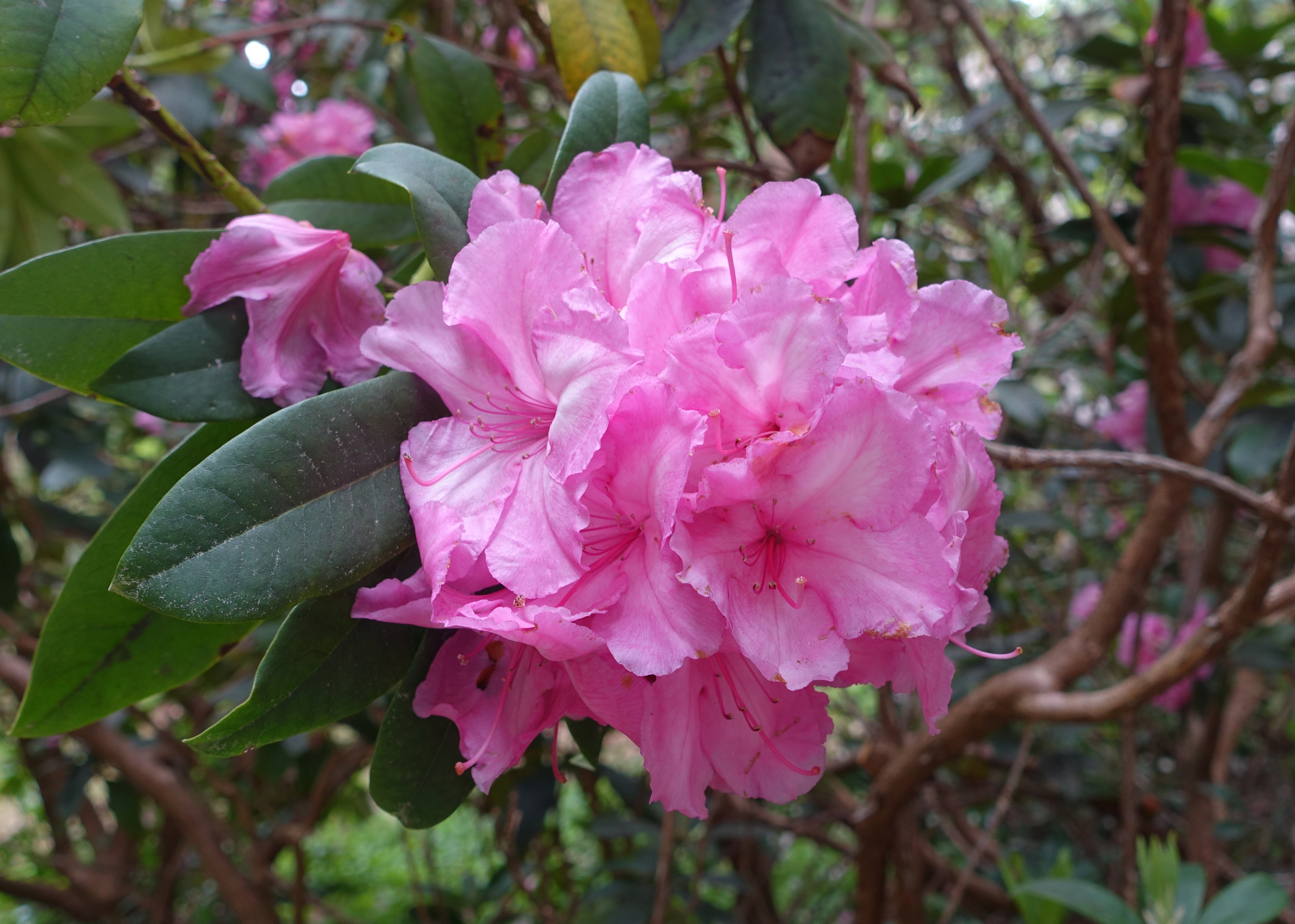 Horticultural specimen in Sir Harold Hillier Gardens - Romsey, Hampshire, England.